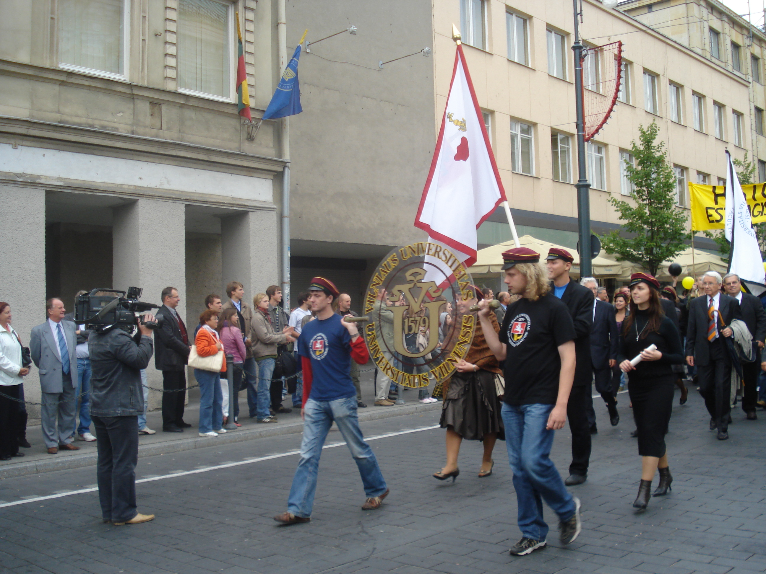 March of the Vilnius University through the Gediminas Avenue on the occasion of new academic year